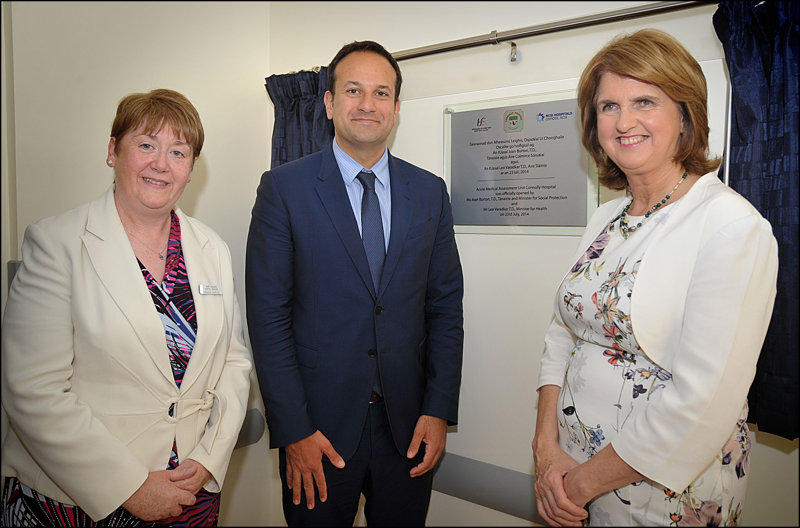 23-7-14 At the official opening of the Acute Medical Assessment Unit and MRI at Connolly Hospital, Blanchardstown today, Mary Walshe, Hospital Manager, Leo Varadkar, Minister for Health and Ms Joan Burton, Tainiste and Minister for Social Protection. Pic Tommy Clancy - No Fee.